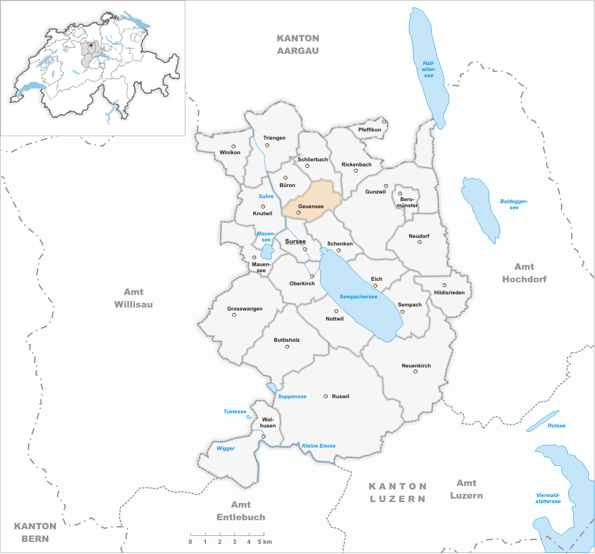 Municipality Geuensee